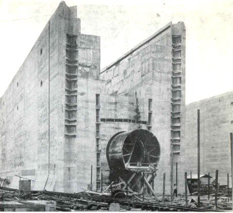 The Panama Canal locks under construction, in 1910. The partly-constructed middle wall is shown here; the large pipe near the bottom is the culvert used to carry water into the locks. The man standing below and right of it illustrates the scale.